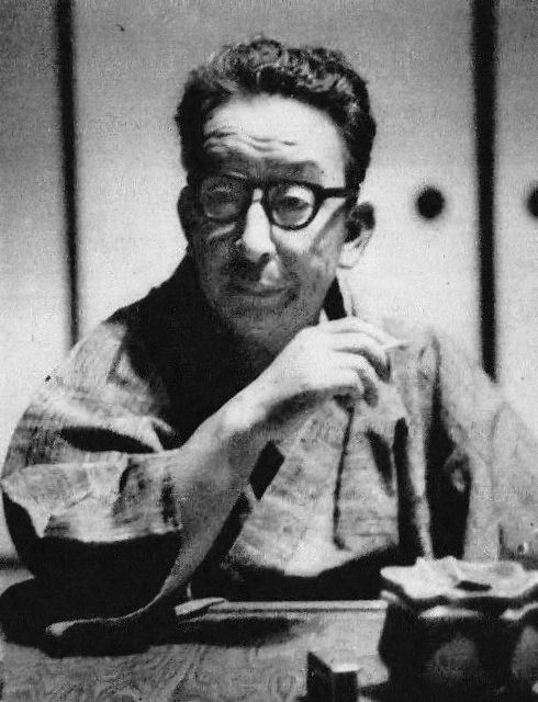 Shigeo Miyata